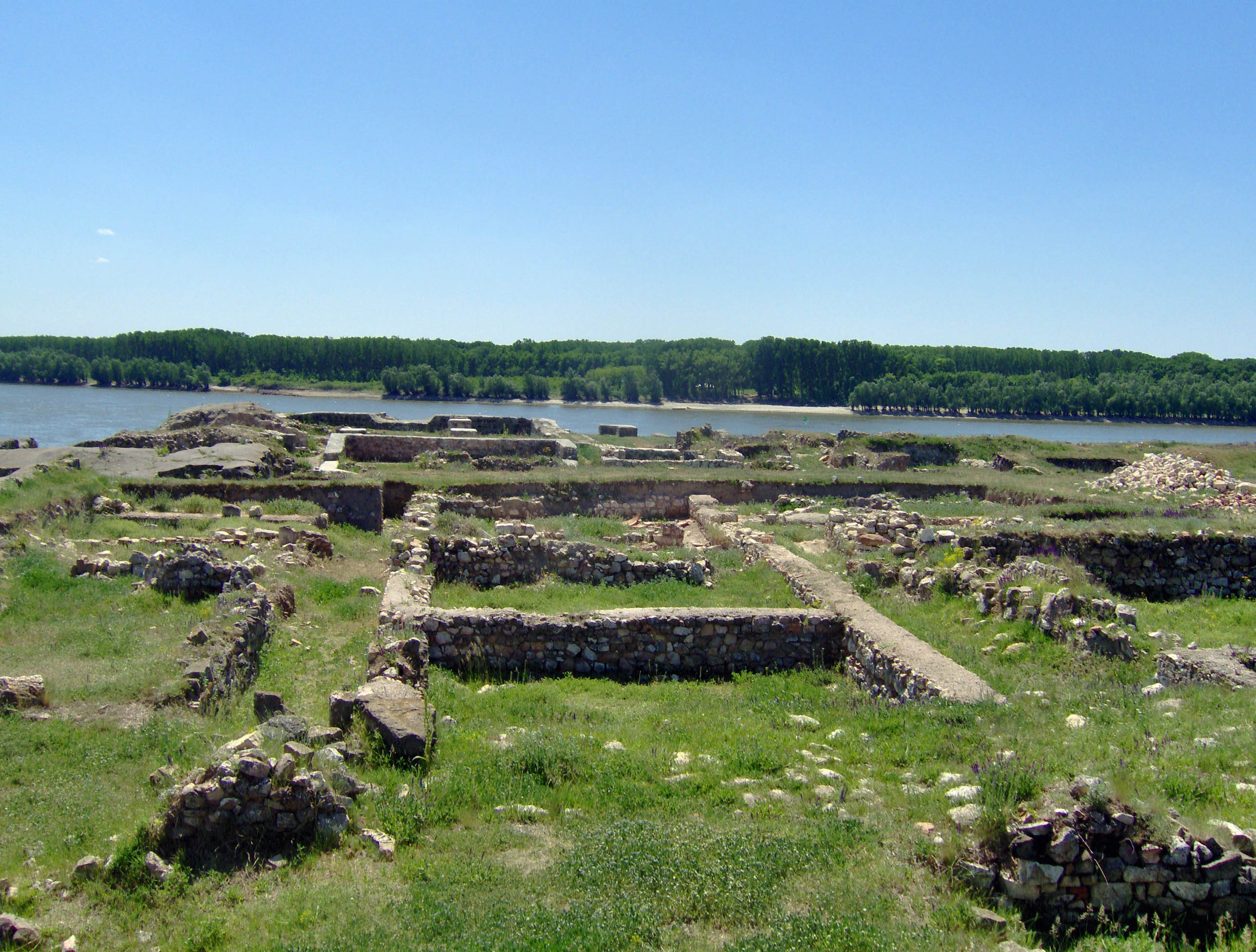 Ruins of the Geto-Dacian fortress Capidava, modern Romania.